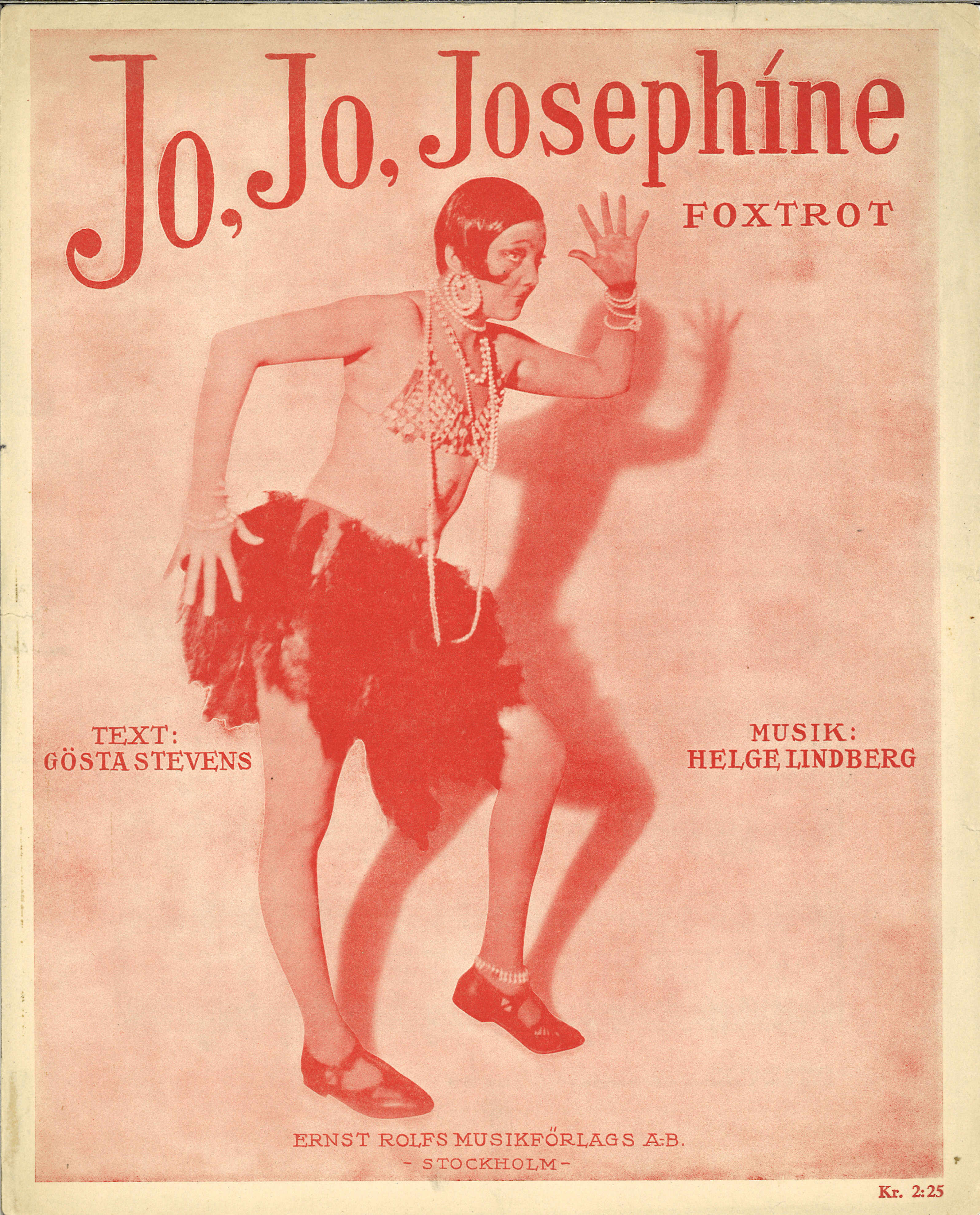 Swedish actress and comedian Katie Rolfsen (1902-1966) performing as Josephine Baker in Ernst Rolf's revue of 1928.